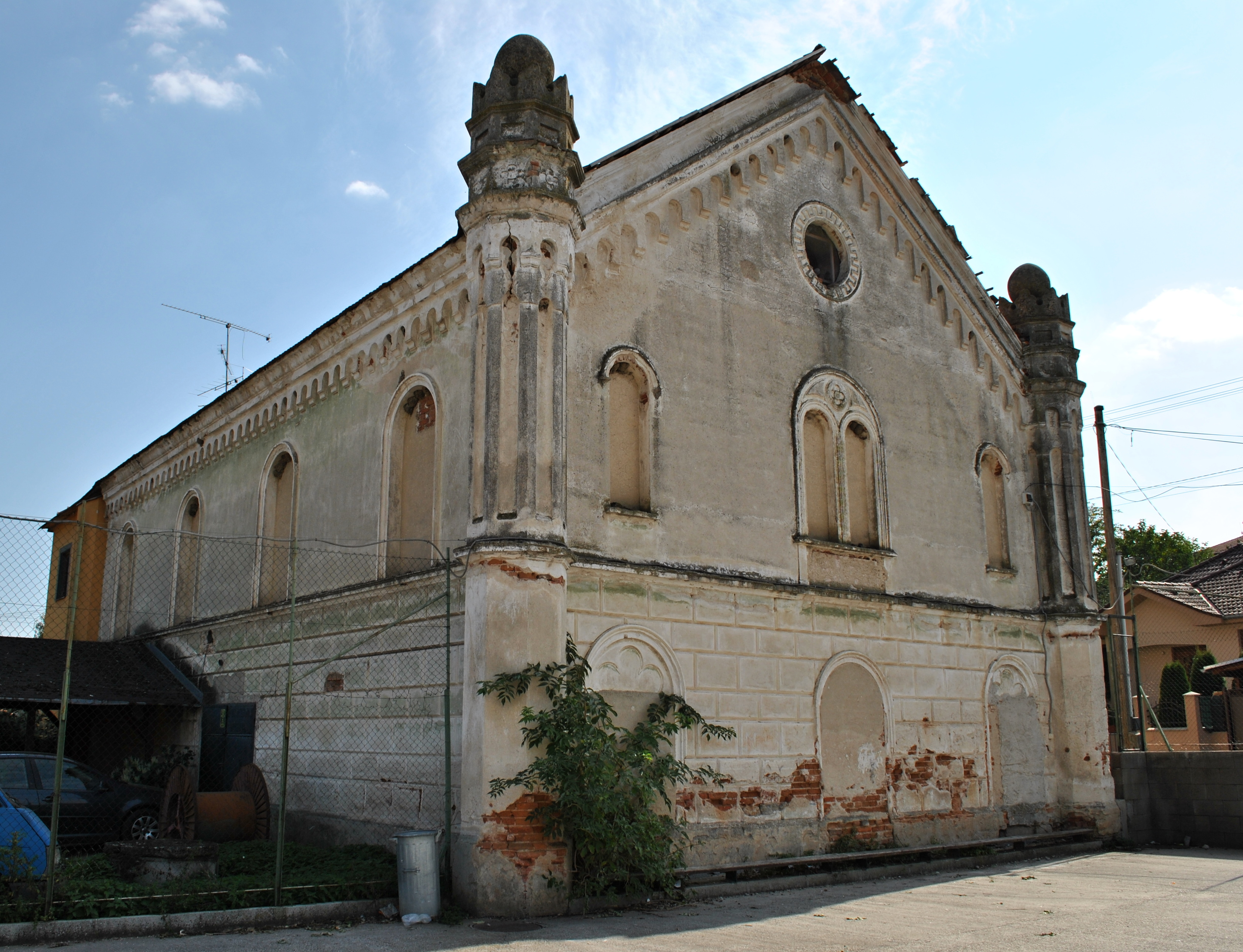 Bojná, district of Topoľčany, Slovakia - synagogue